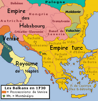 Historic map of Balkan peninsula, 1730